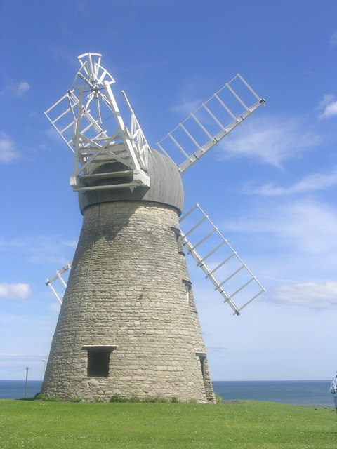 The restored windmill at Whitburn, Co Durham